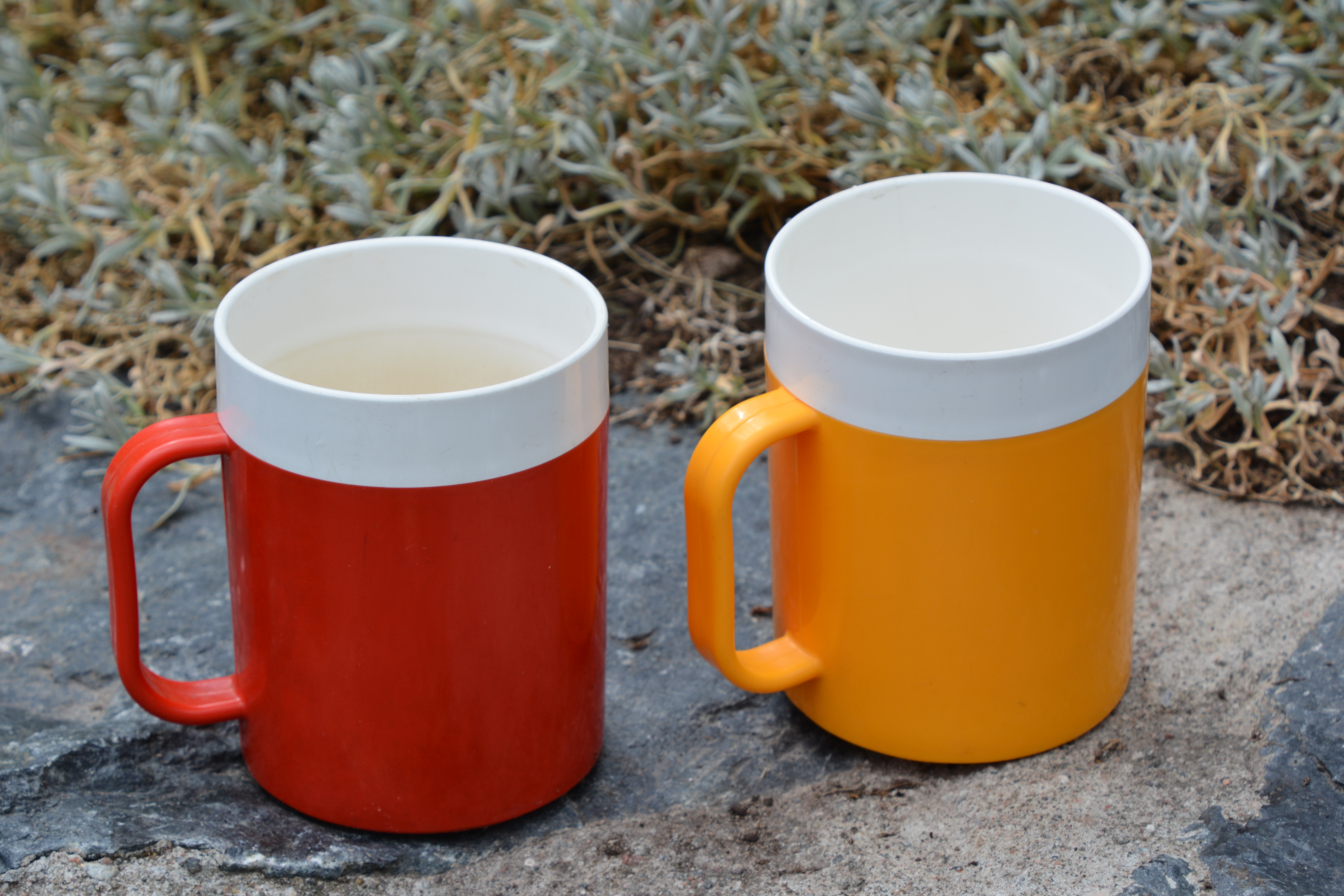 Muggar, Gustavsbergs fabriker, Sven-Eric Juhlin, 1972